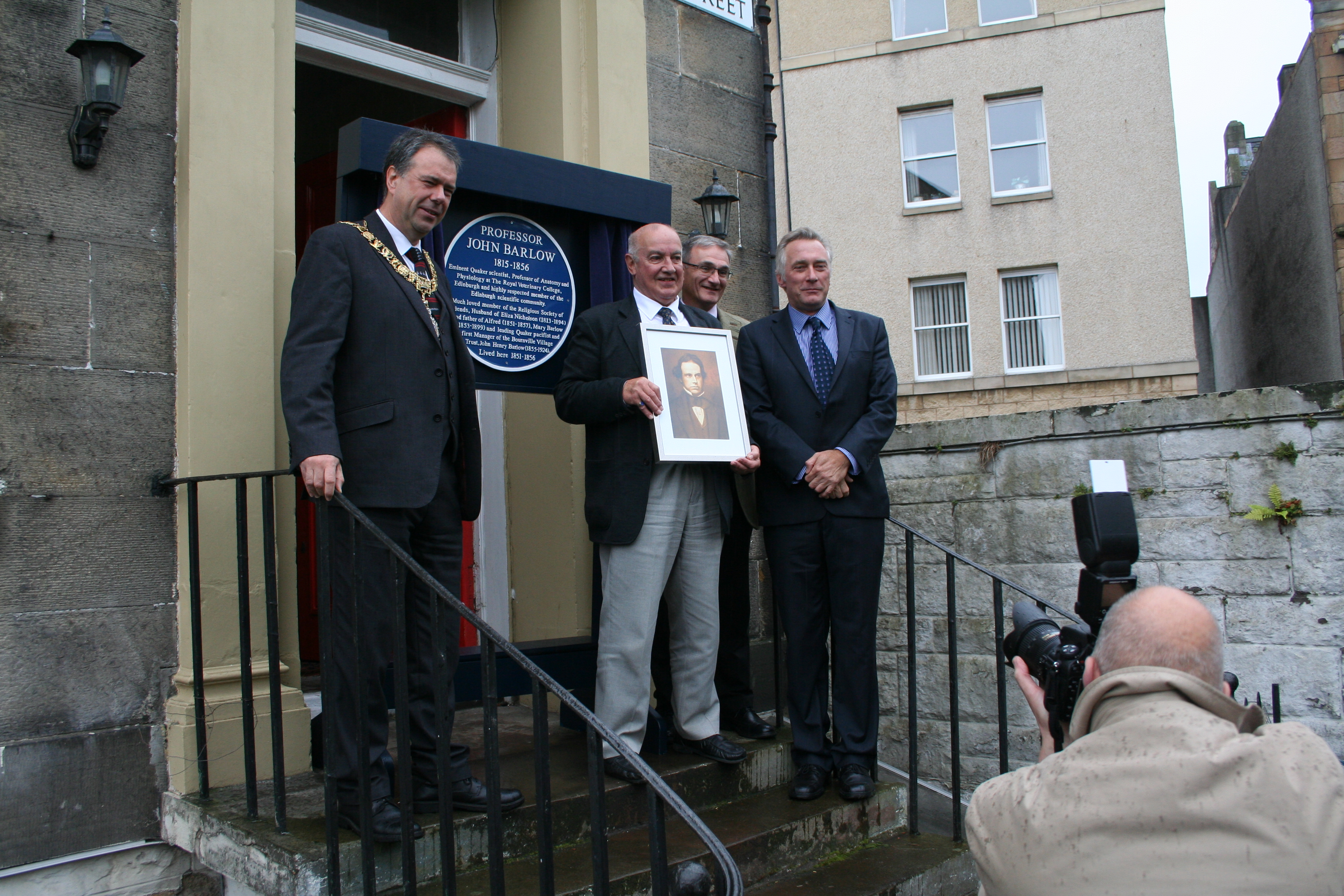 Unveiling a blue plaque to John's son John Henry The unveiling of a blue plaque in honour of John Barlow on Monday, 14 September 2015 outside 1 Pilrig Street, Edinburgh on which the plaque is now placed. In the picture are: Donald Wilson, Lord Provost of Edinburgh Antony R. Barlow, great-grandson of John Barlow Nicholas Barlow, great-grandson of John Barlow Brendan Corcoran, Deputy Head of School, Royal (Dick) School of Veterinary Studies, Edinburgh University (John Barlow’s former college). The plaque reads: ProfessorJohn Barlow1815–1856 Eminent Quaker scientist, Professor of Anatomy and Physiology at The Royal Veterinary College, Edinburgh and highly respected member of the Edinburgh scientific commuity. Much loved member of the Religious Society of Friends. Husband of Eliza Nicholson (1813–1894) and father of Alfred (1851–1857), Mary Barlow (1853–1899) and leading Quaker pacifist and first Manager of the Bournville Village Trust, John Henry Barlow (1855–1924). Lived here 1851–1856